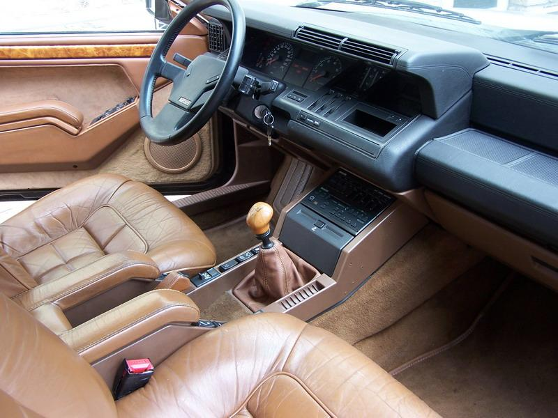 Interieur R25 Baccara